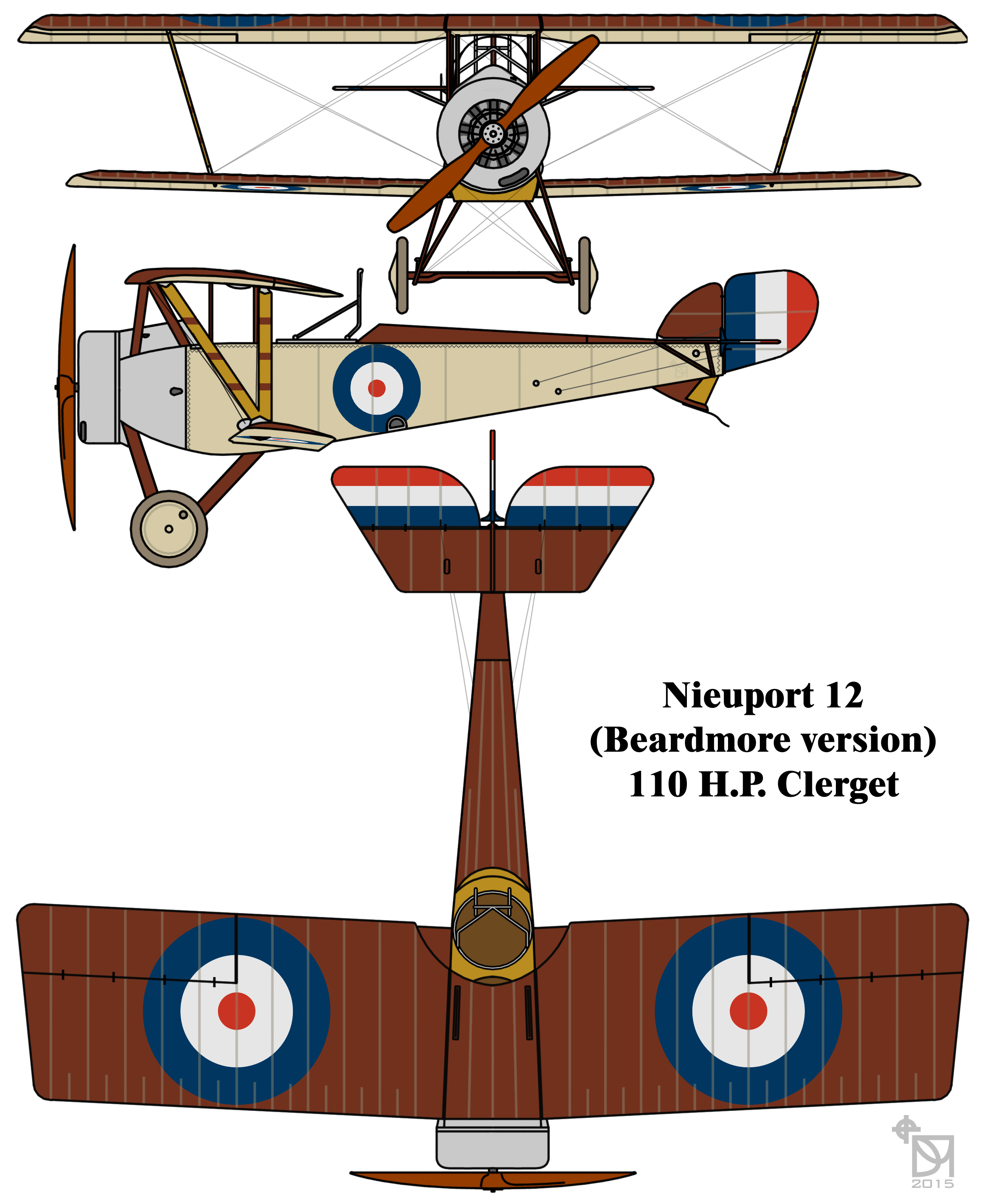 3 view of Nieuport 12 built under licence in Scotland by Beardmore, who made a considerable number of minor modifications from the French designed Nieuport 12. The Beardmore Nieuports can be identified by the midspan locations of the roundels and the stripes on the elevators, and early examples had PC.10 uppers and clear doped linen sides. Modifications they made include a much heavier undercarriage, a fin, leading edge riblets, a redesigned horizontal tail, a new tailskid, and a full cowling that restricted cooling air so much that many cut it down. The top of the forward fuselage was also redesigned and a conventional instrument panel was installed, in contrast to Nieuport's practice of bolting instruments to structural members.